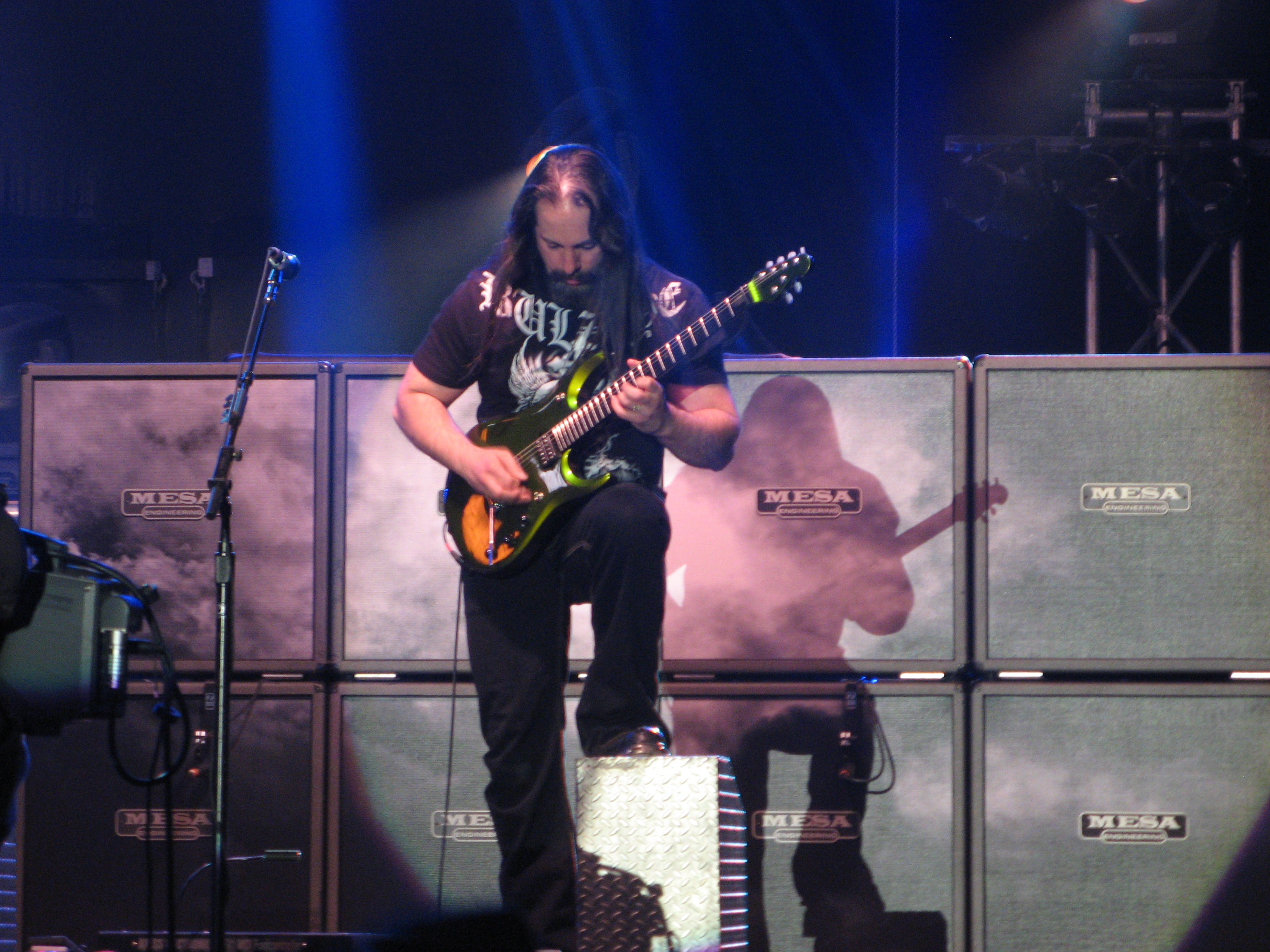 Guitarist John Petrucci performing at a Dream Theater concert.